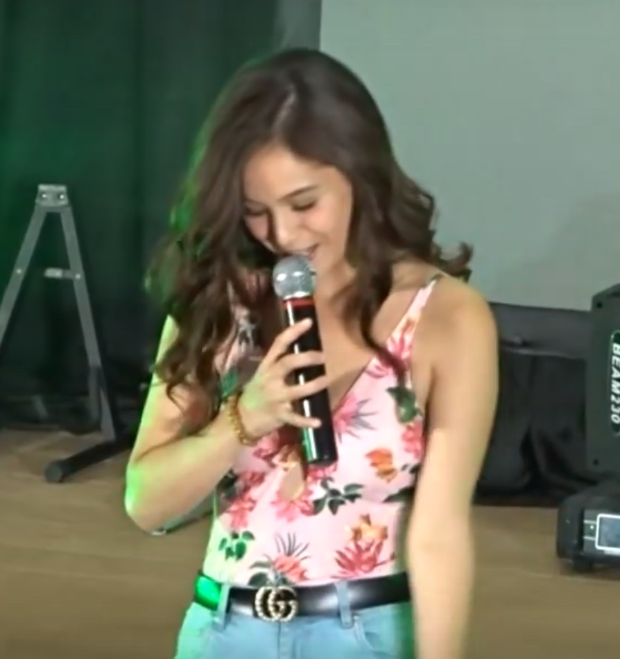 Barbie Imperial at her mall show.